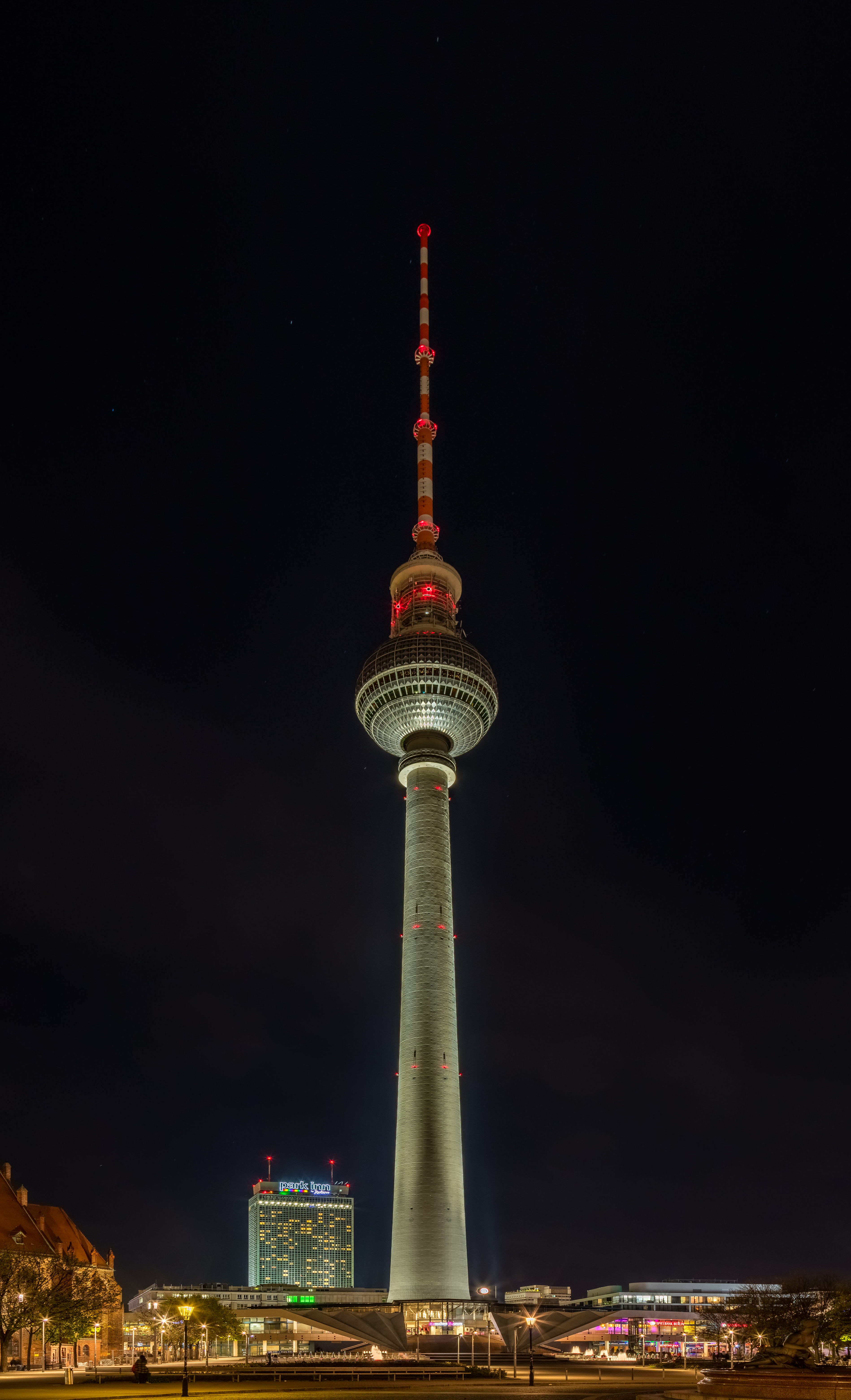 Fernsehturm (TV tower), Berlin, Germany